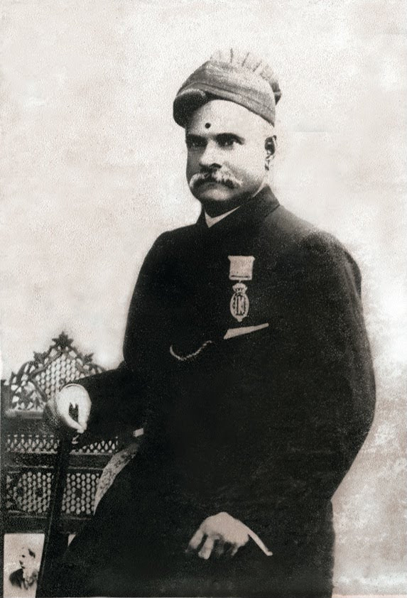 Indian painter Raja Ravi Varma (1848–1906)